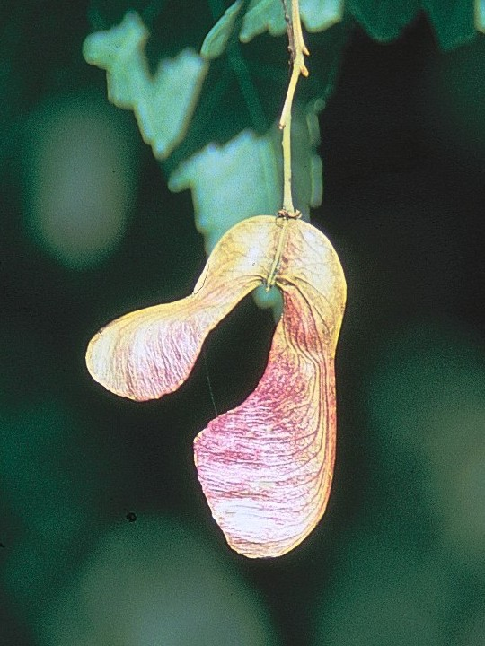 Amur Maple. Seeds in tree.